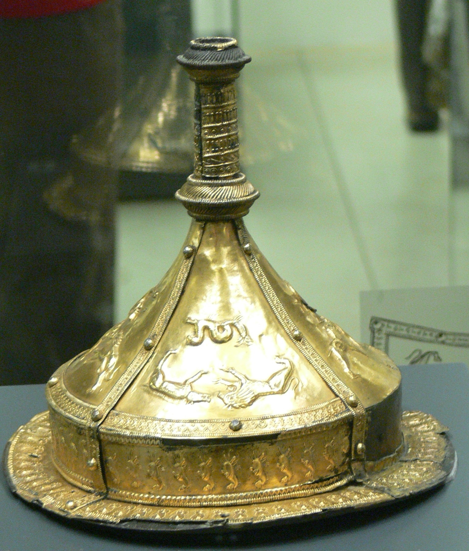 Celtic Museum Manching ( Bavaria ). Exhibition "Rome´s unknown borders": Vandal gilted bronze shield boss ( 3rd/4th century AD ), from Herpálypuzta, Berettyóújfalu, district Hajdú-Bihar ( Hungarian National Museum, Budapest ).